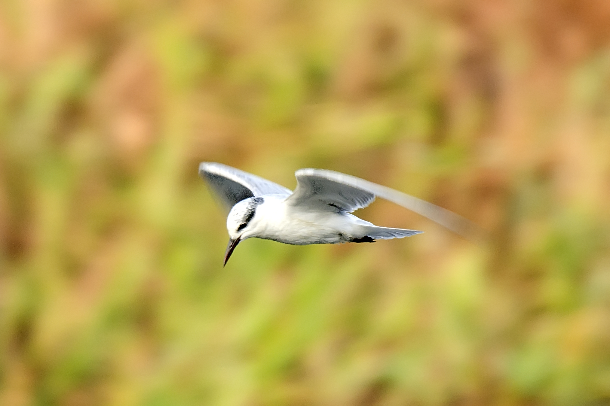 Whiskered tern flying